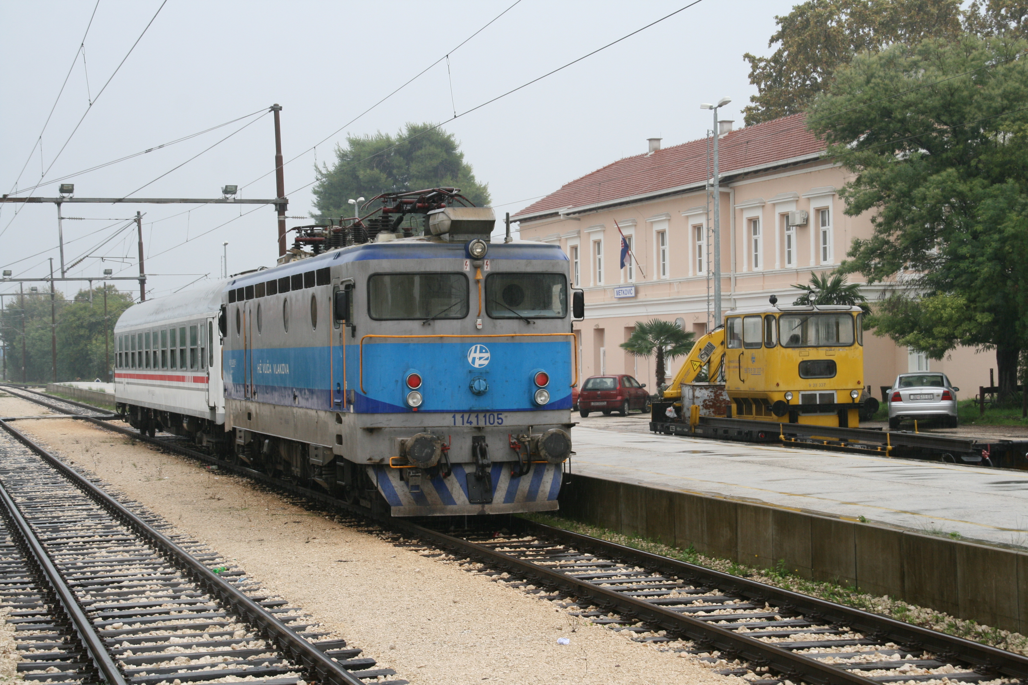 Metković railway station